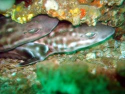 Coral catsharks (Atelomycterus marmoratus) at Sponge Factory Dive spot located just off Koh Rung Cambodia.